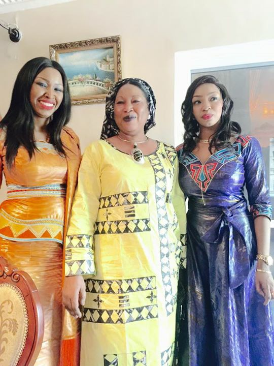 Bazin rich